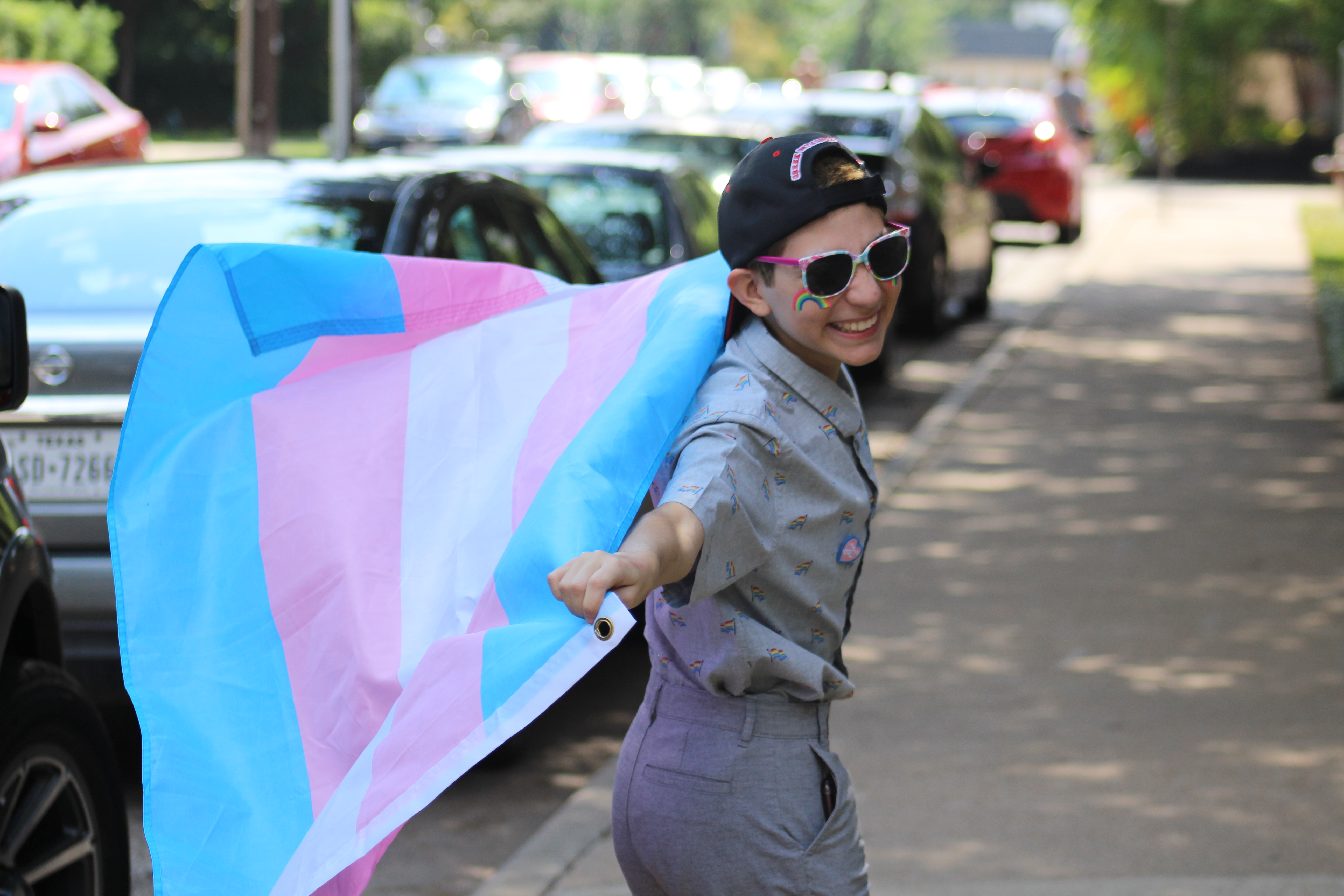 This is Dylan's first year at the pride parade being an outed trans boy.